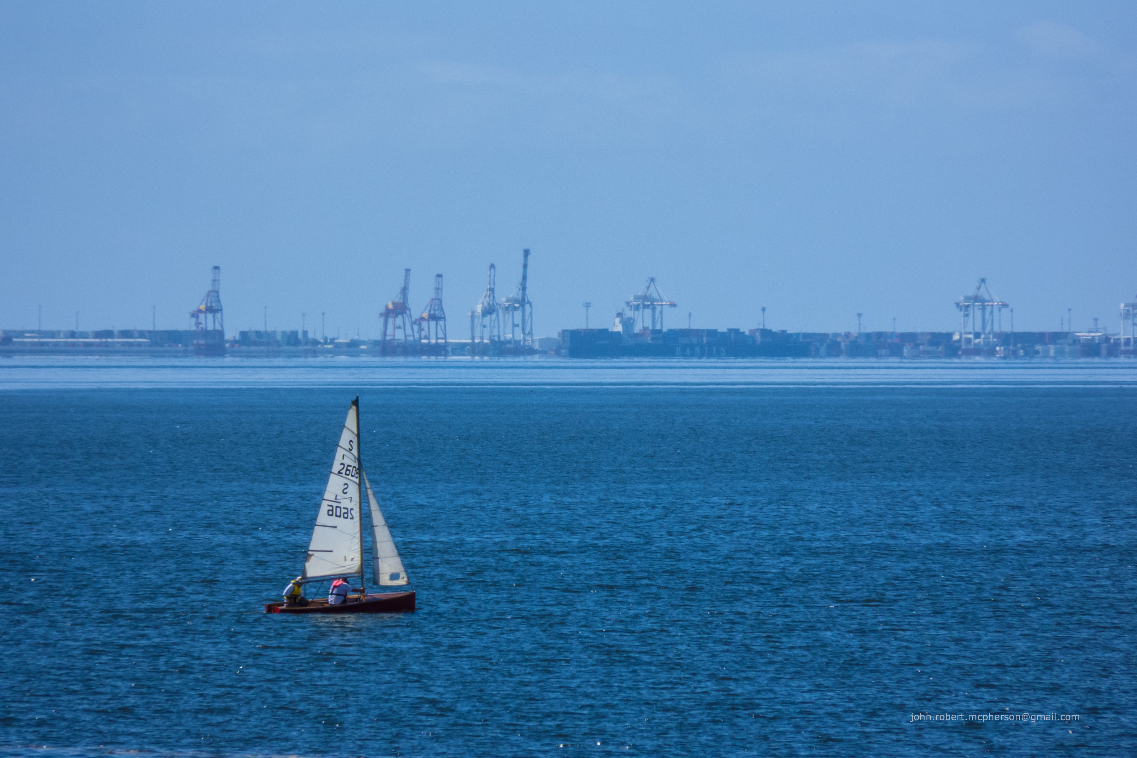 The Port of Brisbane, on the opposite side of Bramble Bay, is seen behind a small skiff sailing near the Clontarf shore.